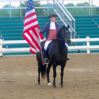 Morgan horse and rider at the Parade of Breeds, Kentucky Horse Park.